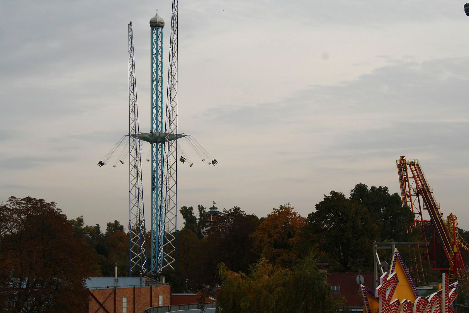 Wurstelprater amusement park, Vienna (Prater)